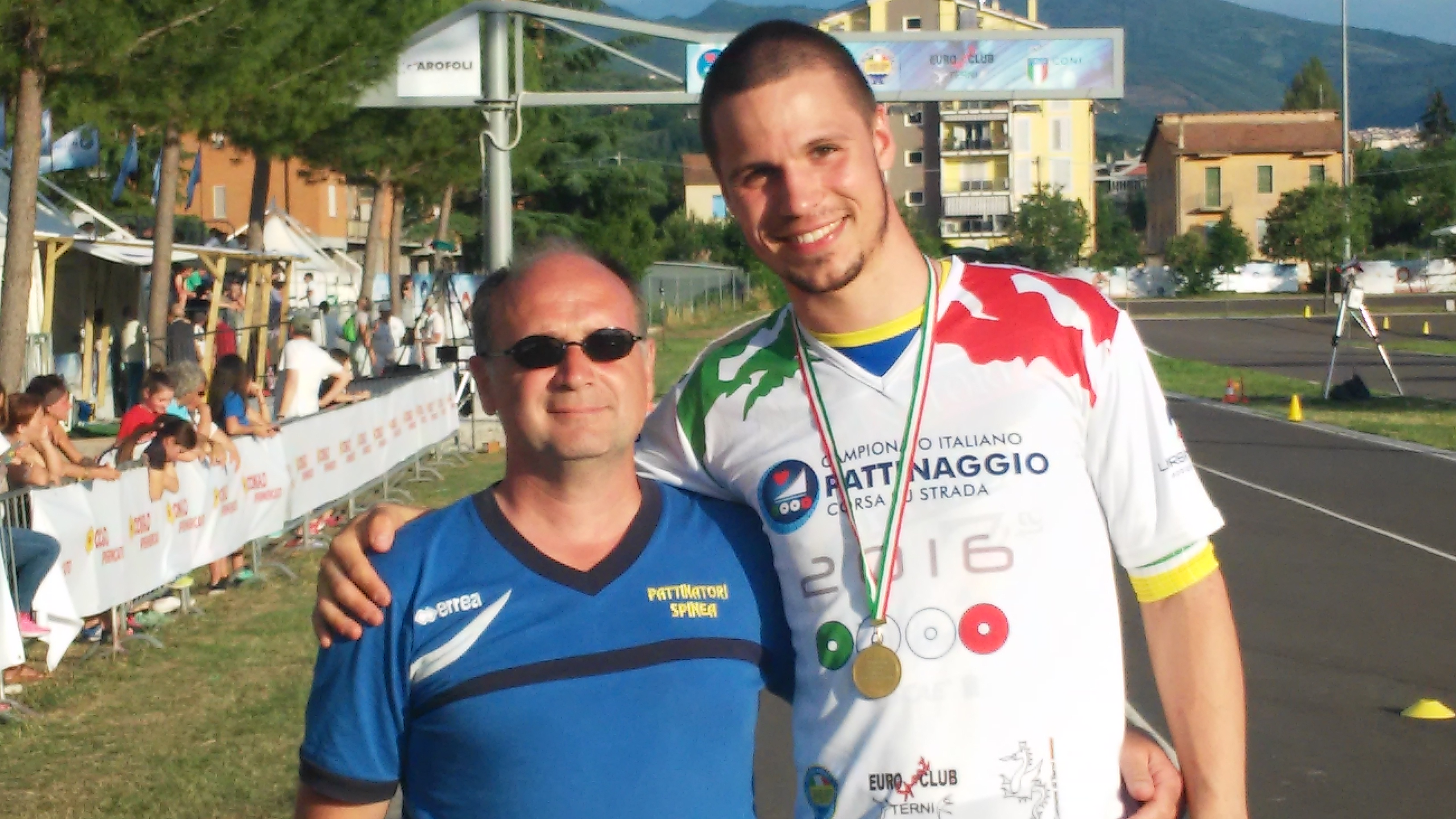 Terni 2016 Riccardo Passarotto campione italiano e l'allenatore Luca Bocola